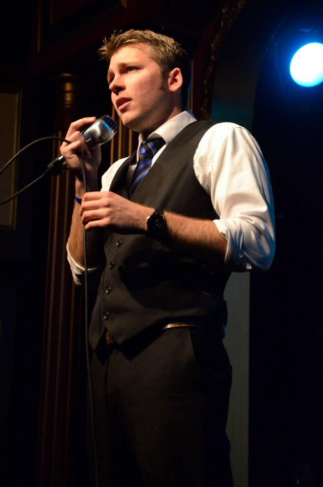 JB stage